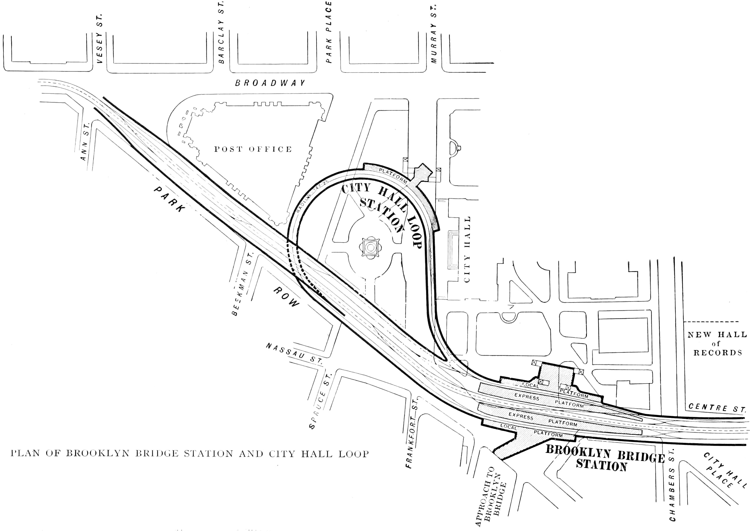 A plan of City Hall (IRT Lexington Avenue Line station).